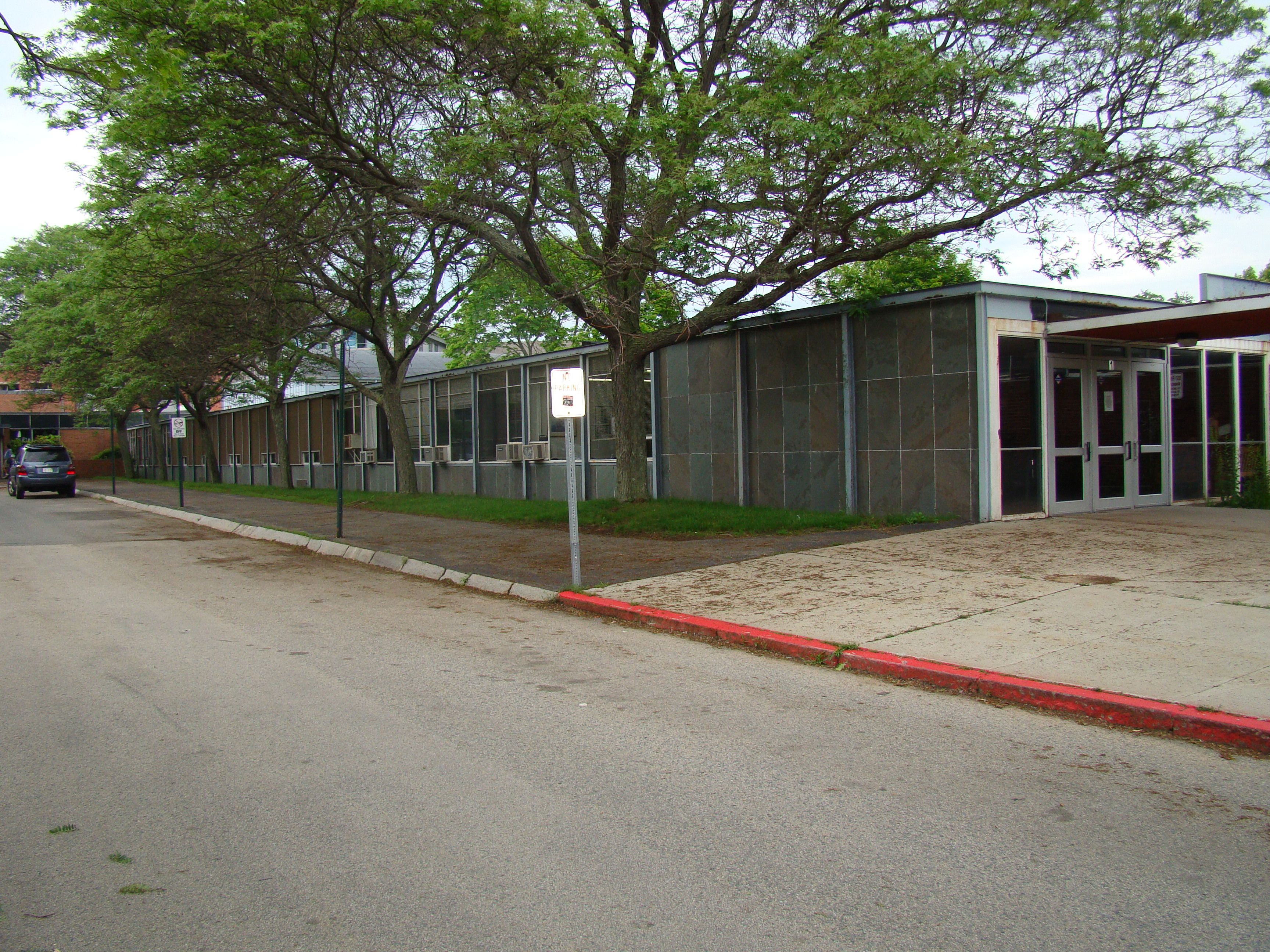 Old MERHS 2